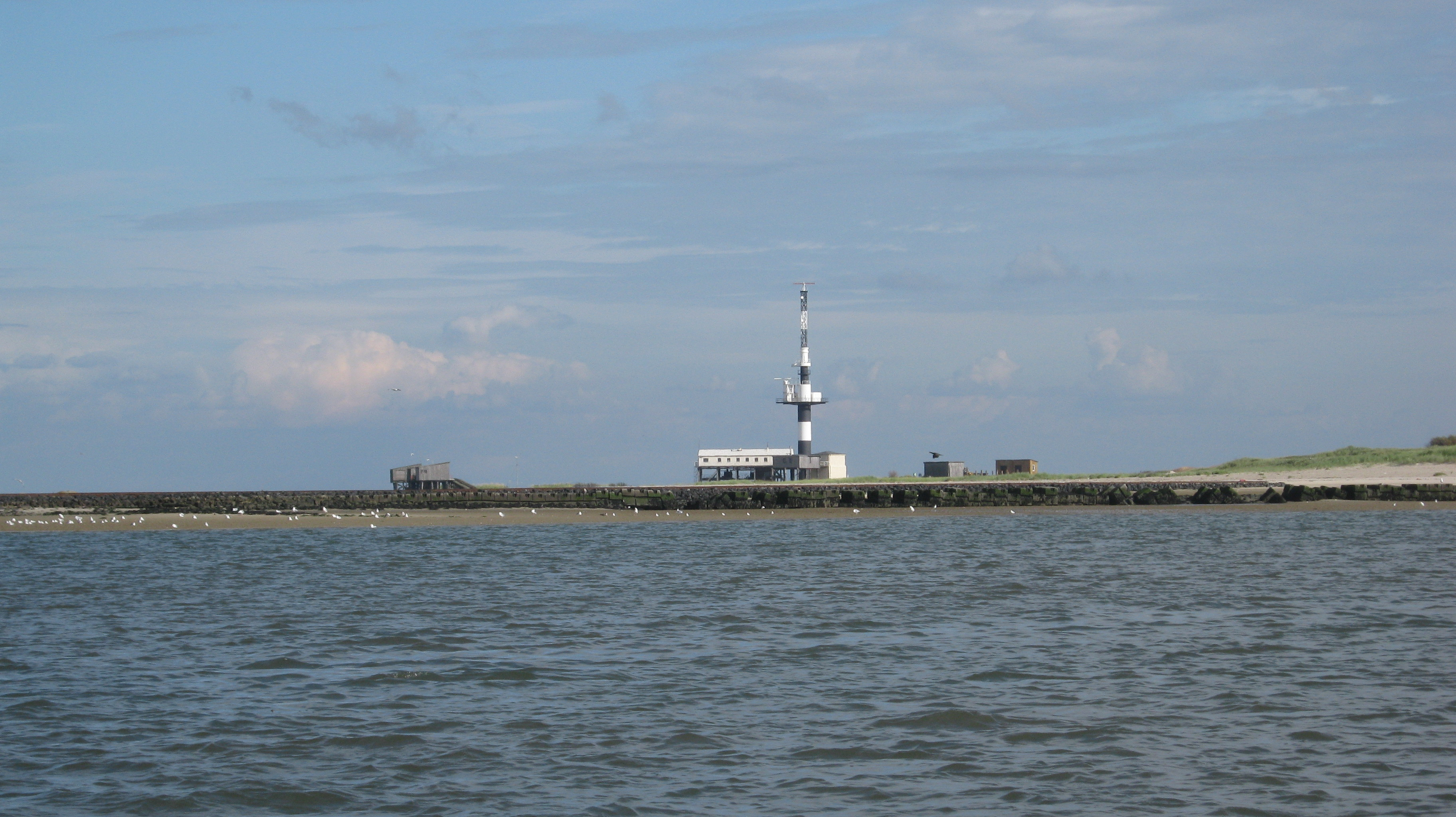 Minsener Oog